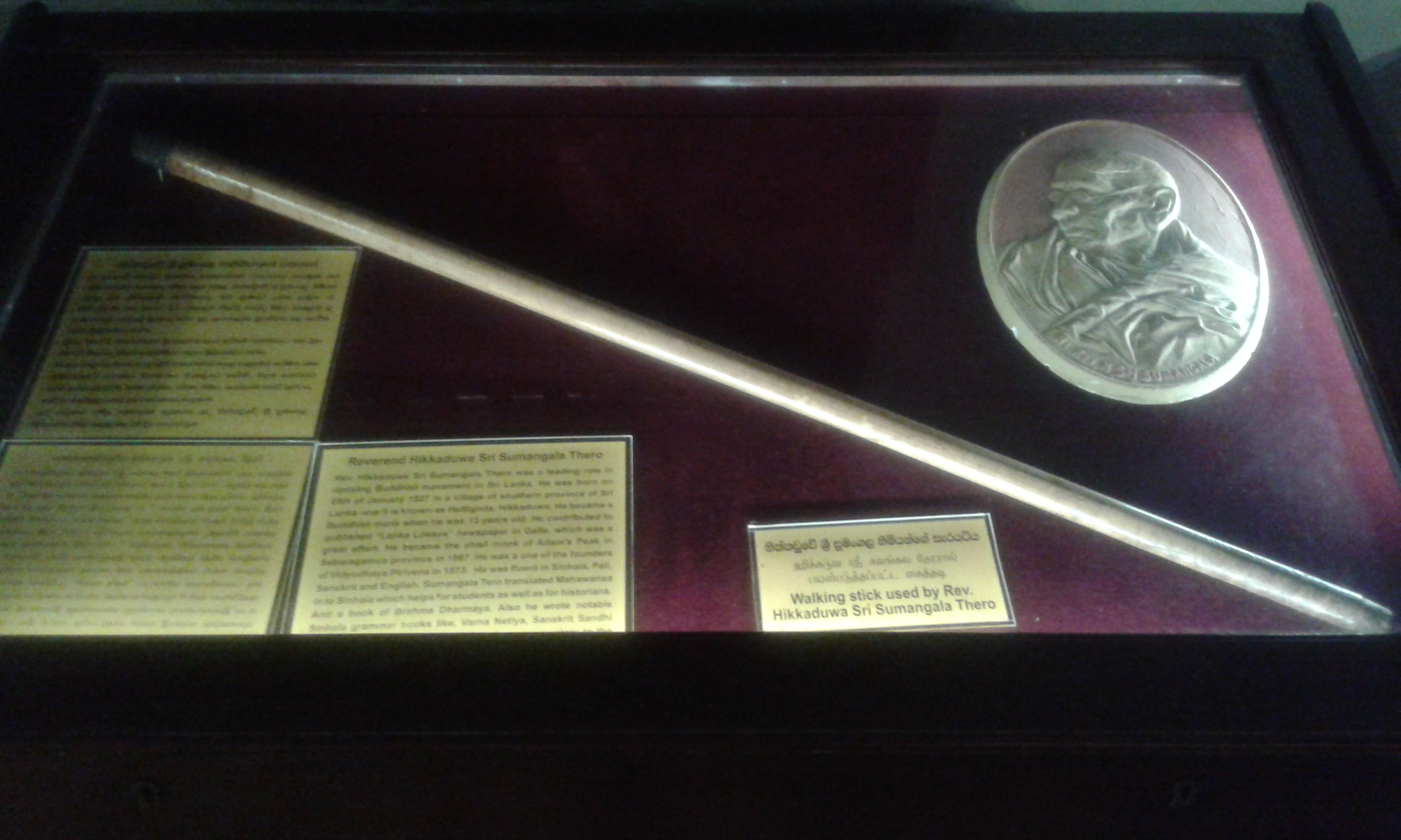 Photograph of Most Venerable Hikkaduwe Sri Sumangala Thera's Walking Stick Kept in Galle National Museum.